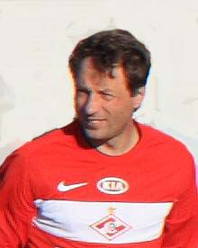 Dmitri Alekseyevich Khlestov ( born 21 January 1971) is a retired Russian football player.